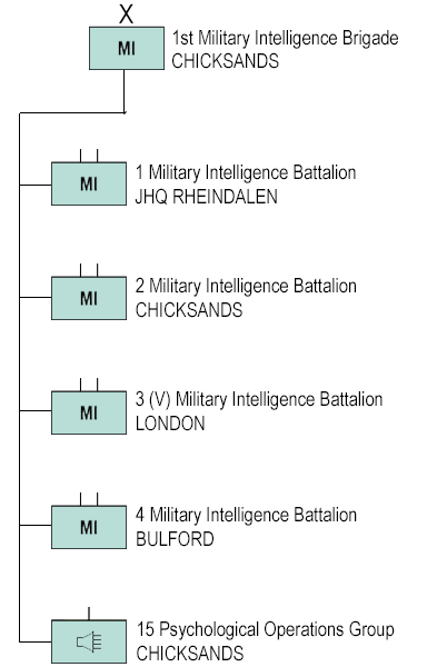 1 Military Intelligence Brigade Structure